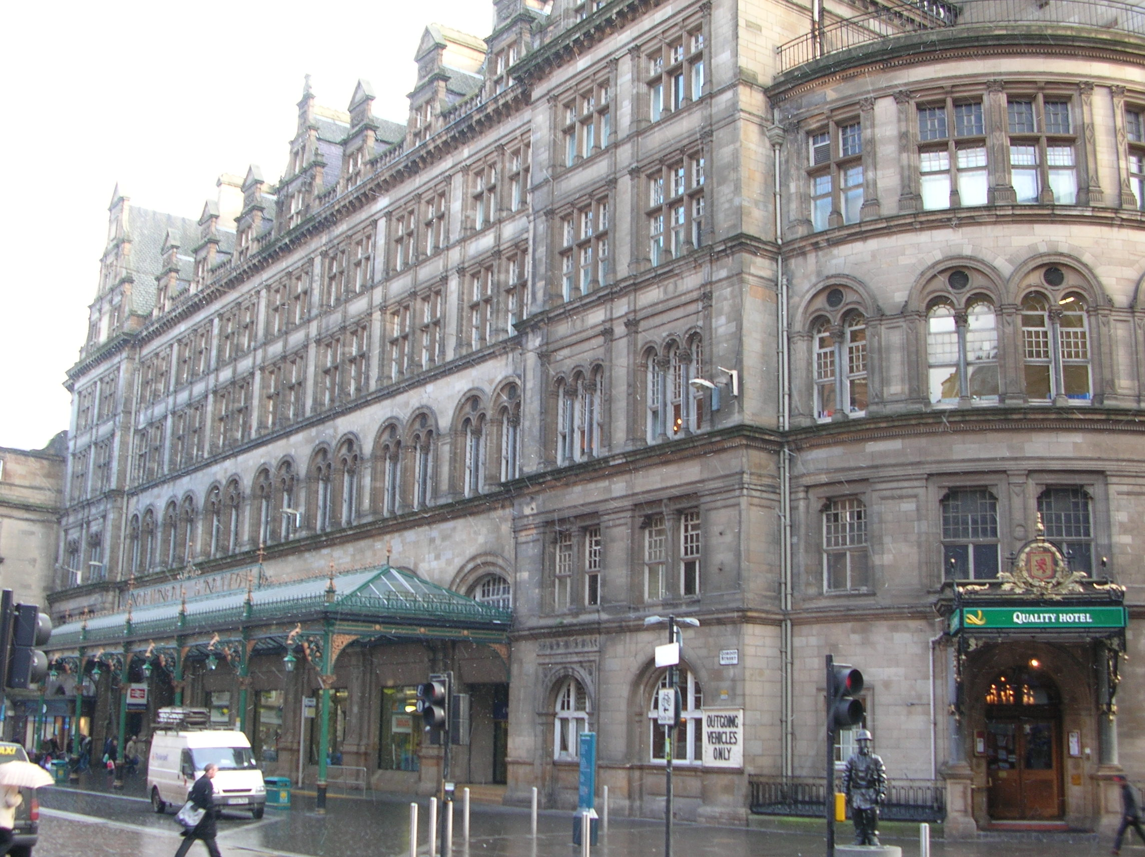 Central Hotel at Central Station in Glasgow designed Robert Rowand Anderson